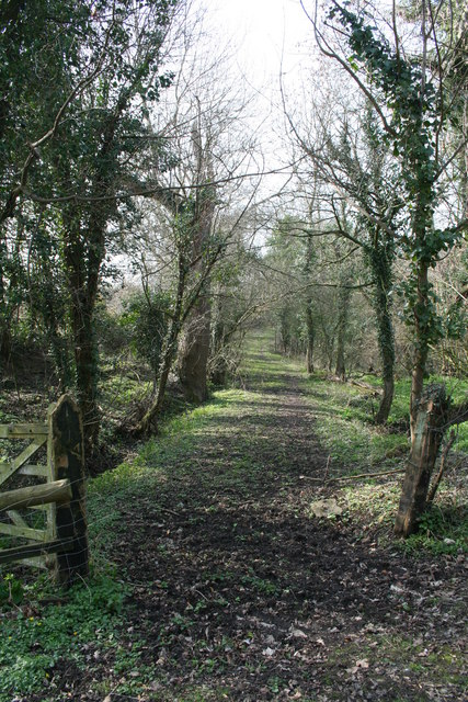 Bridle path, near to Cross Lanes, Wrexham/Wrecsam, Wales. This path appeared to have been used by horse traffic. Was this the former branch-line I was looking for?